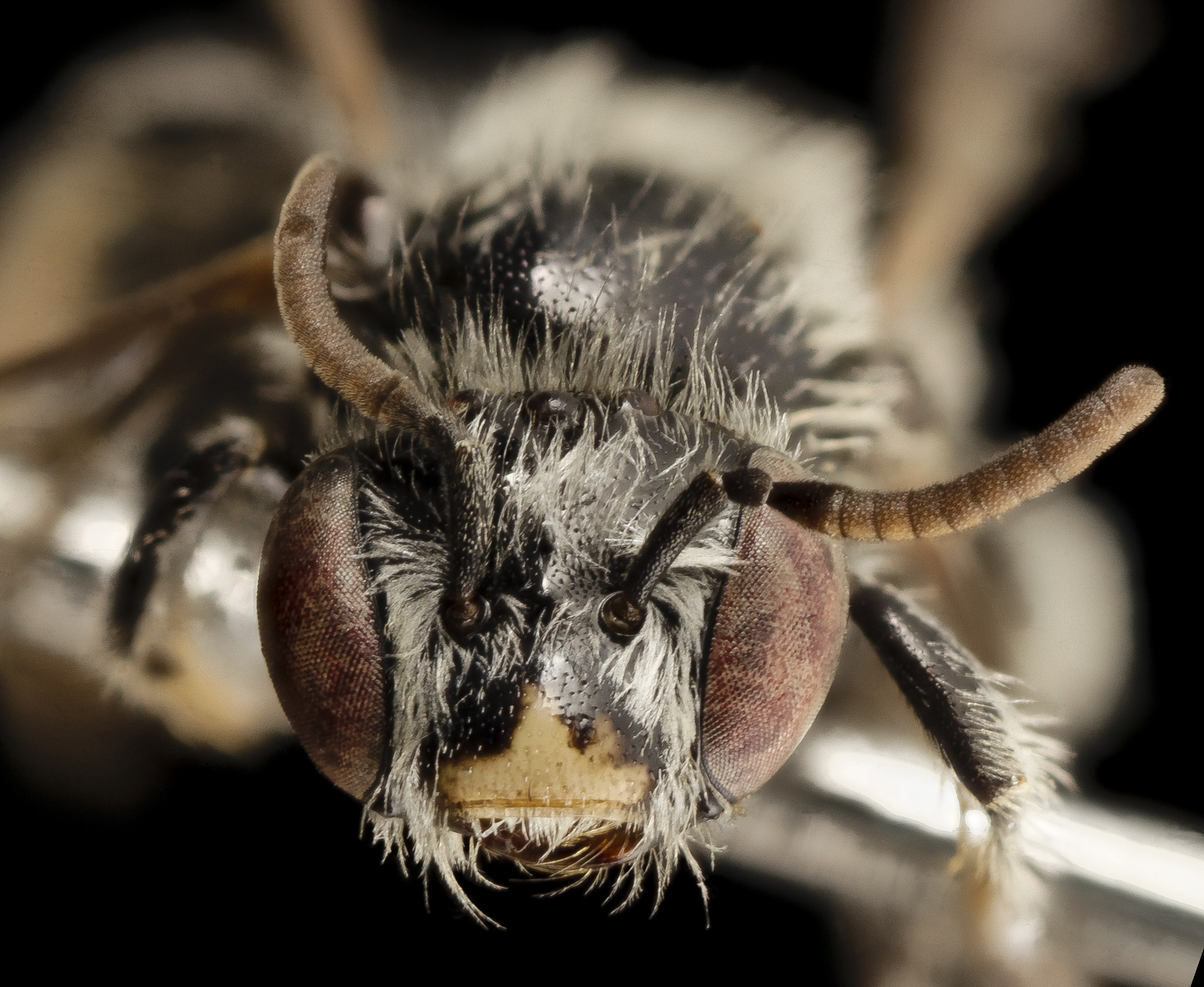 Well, not so great looking a bee specimen, so it goes sometimes when doing bee surveys where thousands of specimens are processed quickly under less than ideal conditions. However, there is a nice little story here. This bee was found by the National Park Service survey team George Washington's Home in Virginia. 15:41, 3 February 2015 (UTC)15:41, 3 February 2015 (UTC) 0 15:41, 3 February 2015 (UTC)15:41, 3 February 2015 (UTC) All photographs are public domain, feel free to download and use as you wish. Photography Information: Canon Mark II 5D, Zerene Stacker, Stackshot Sled, 65mm Canon MP-E 1-5X macro lens, Twin Macro Flash in Styrofoam Cooler, F5.0, ISO 100, Shutter Speed 200 The butterfly obtains But little sympathy, Though favorably mentioned In Entomology. Because he travels freely And wears a proper coat, The circumspect are certain The he is dissolute. Had he the homely scutcheon of modest Industry, T were fitter certifying for Immortality. - Emily Dickinson Contact information: Sam Droege 301 497 5840